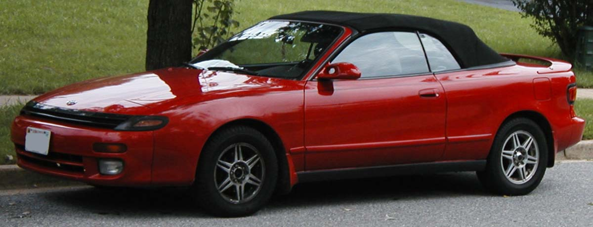 1991-1993 Toyota Celica GT Convertible (ST184) photographed in USA.